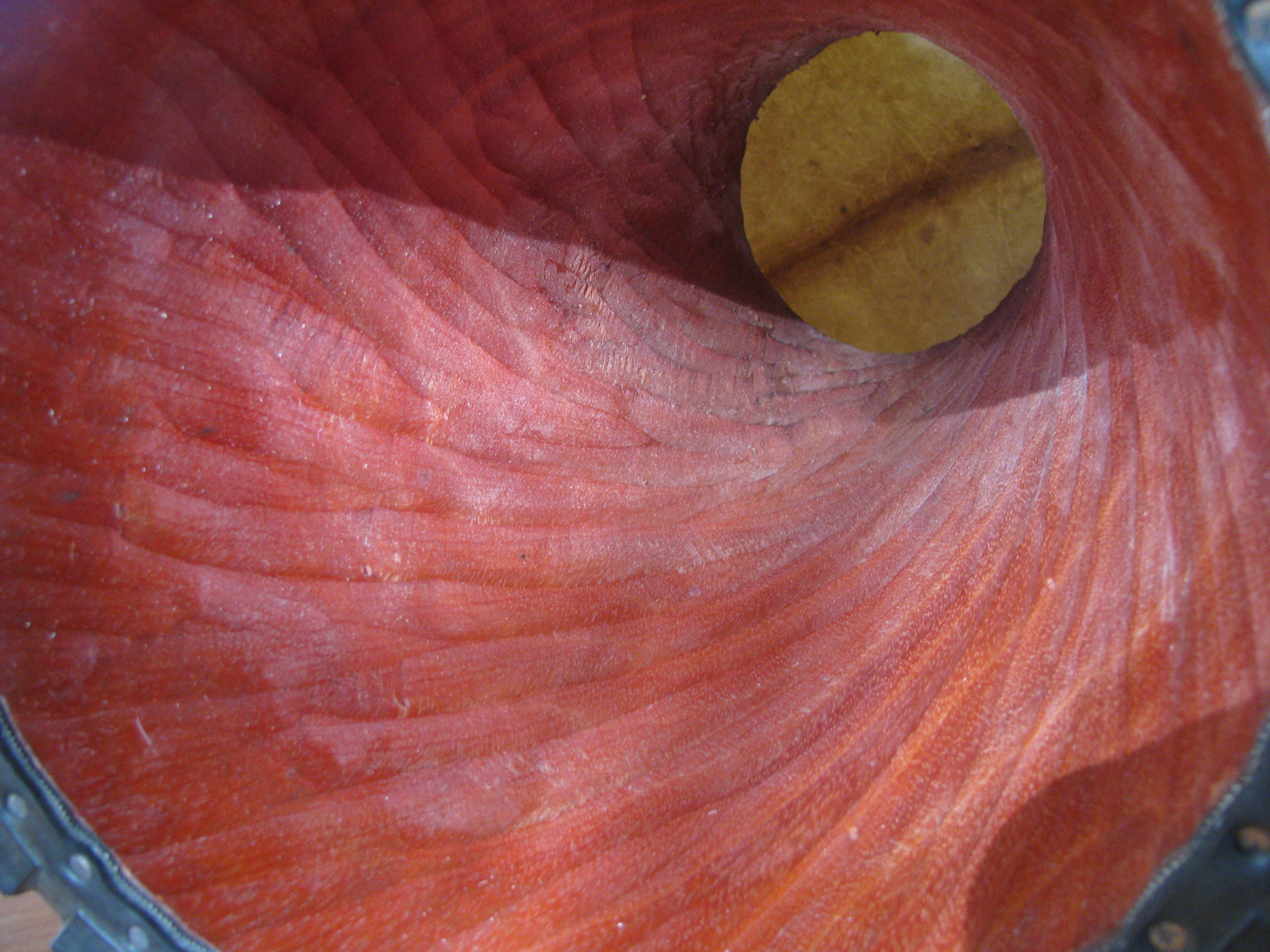 Spiral pattern that is left behind by carving on the inside of a djembe made of djalla wood.